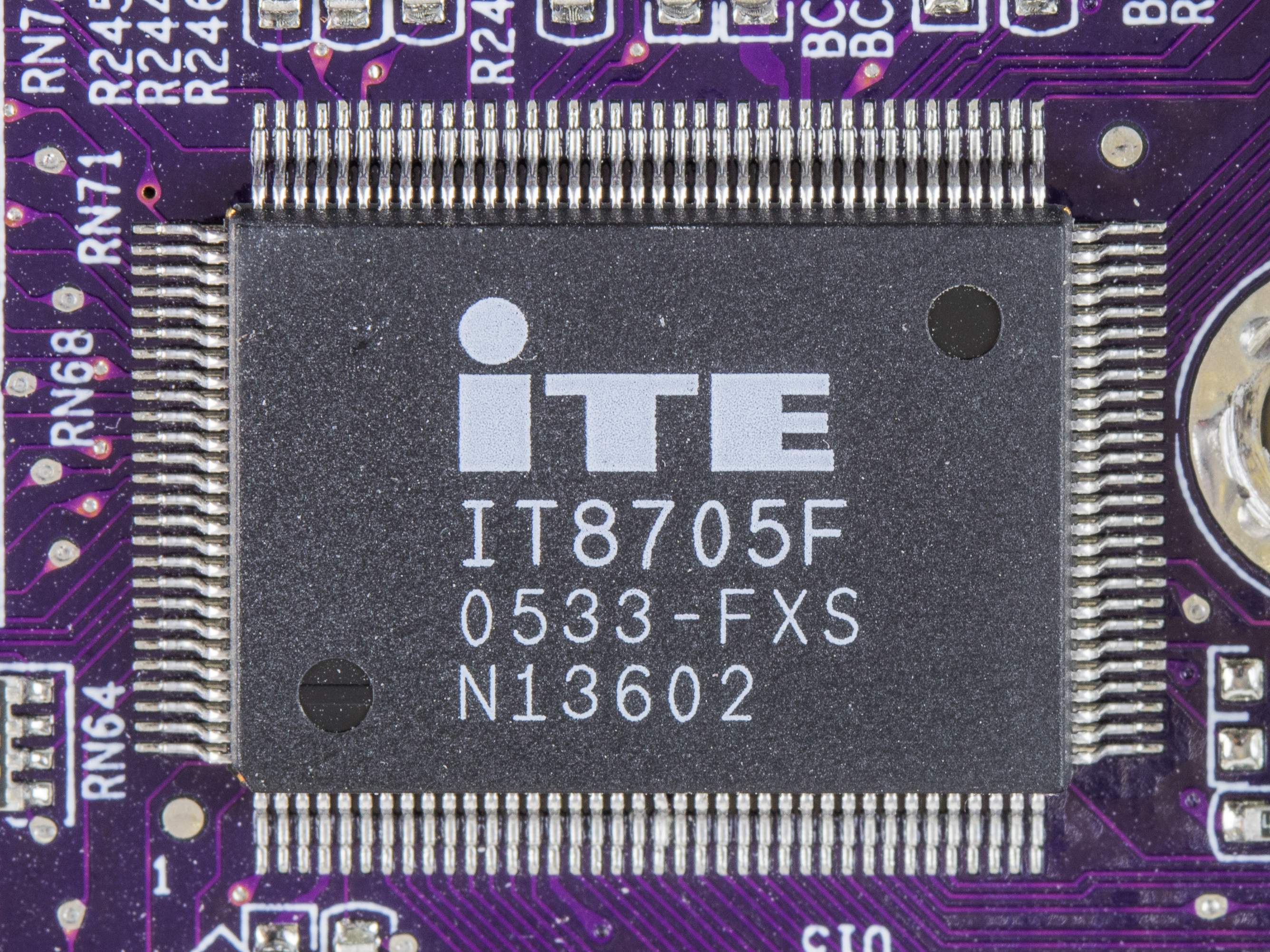 Elitegroup 755-A2 - ITE IT8705F - Simple Low Pin Count Input / Output (Simple LPC I/O). Package: 128-pin PQFP